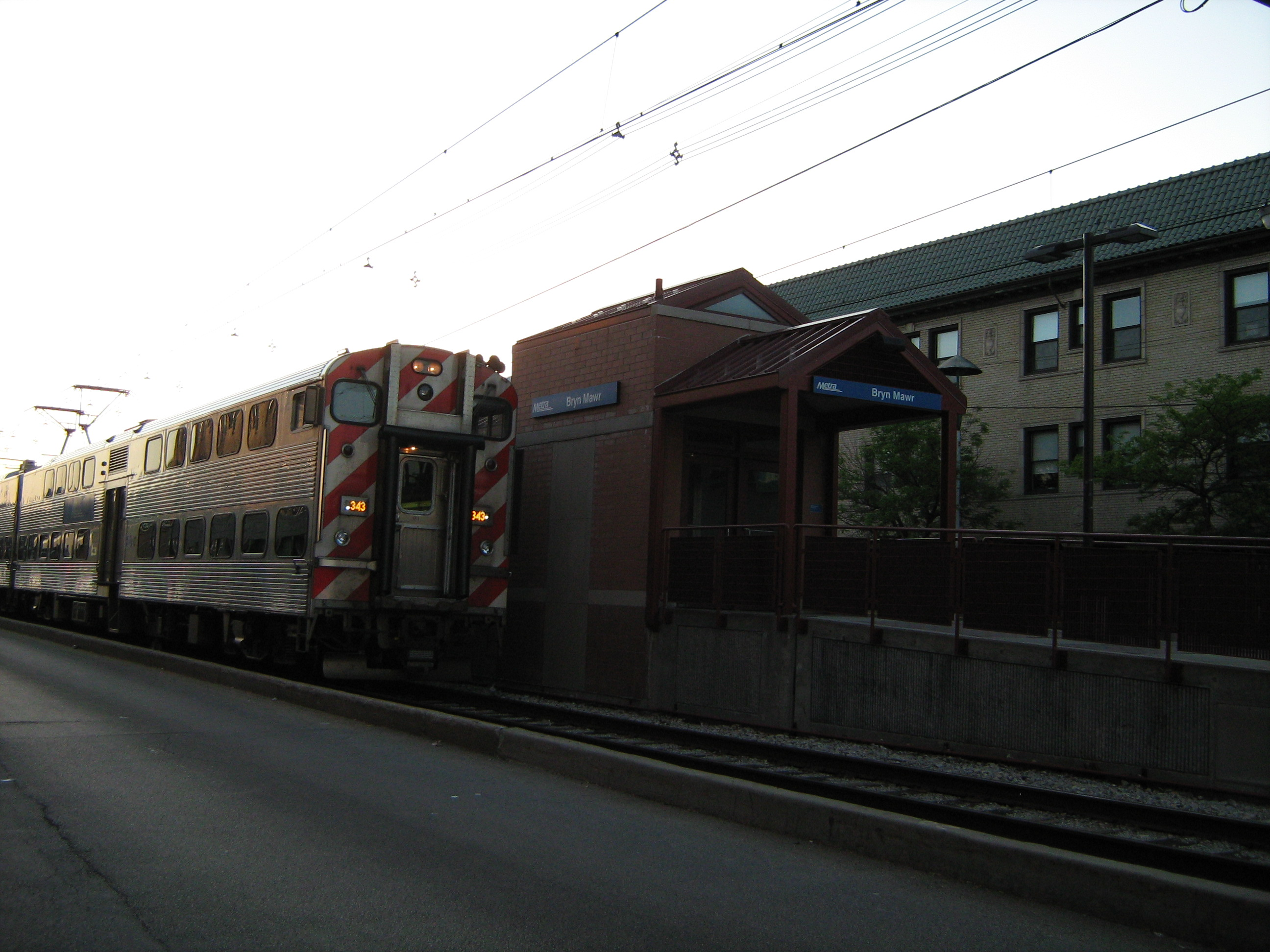 The Bryn Mawr Metra station at 71st Street & Jeffery Boulevard. It is on the Metra Electric Line (South Chicago Branch), in Zone B.